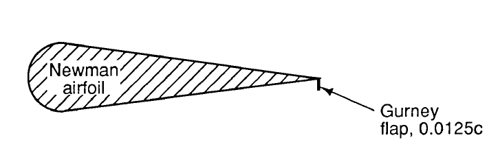 Title: A water tunnel study of Gurney flaps. Abstract: "Several Gurney flap configurations were tested in the NASA Langley 16 x 24 inch Water Tunnel. These devices provided an increased region of attached flow on a wing upper surface relative to the wing without the flaps. The recirculation region behind the flap was visualized and shown to be consistent with hypotheses stated in previous research. Although the test Reynolds number for this study was several orders of magnitude below those in previous investigations, the effect of the Gurney flaps is in qualitative agreement with them. This is as would be expected from first order effects for high lift devices."